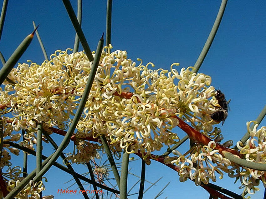 Hakea recurva (3)